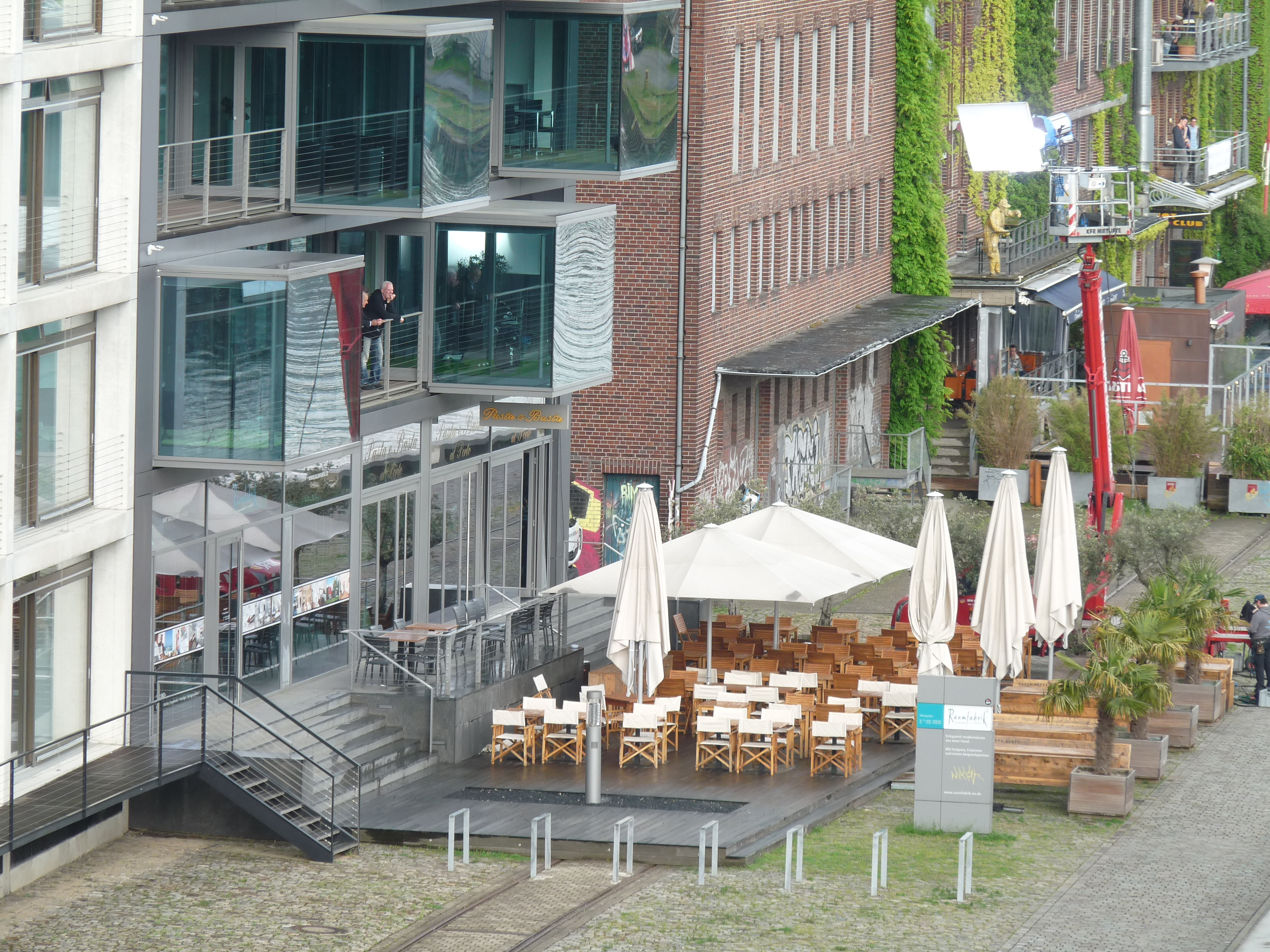 shooting of episode Mundtot of TV series Wilsberg at harbour Münster